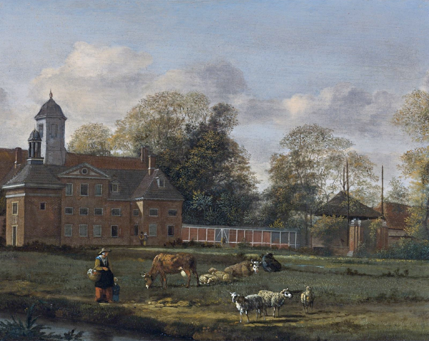 View of Goudestein with a woman and a child walking beside a dyke